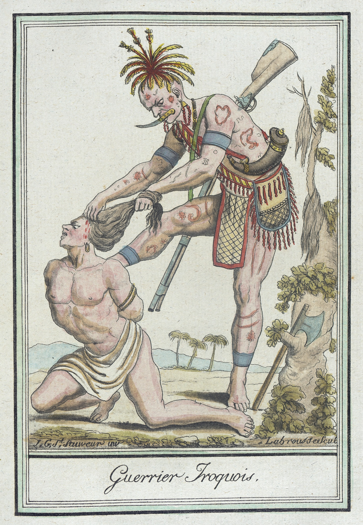 France, circa 1797 Prints; engravings Hand-tinted engraving on paper Sheet: 10 x 7 7/8 in. (25.4 x 20.01 cm); Composition: 8 3/8 x 6 1/8 in. (21.27 x 15.56 cm) Costume Council Fund (M.83.190.373) Costume and Textiles